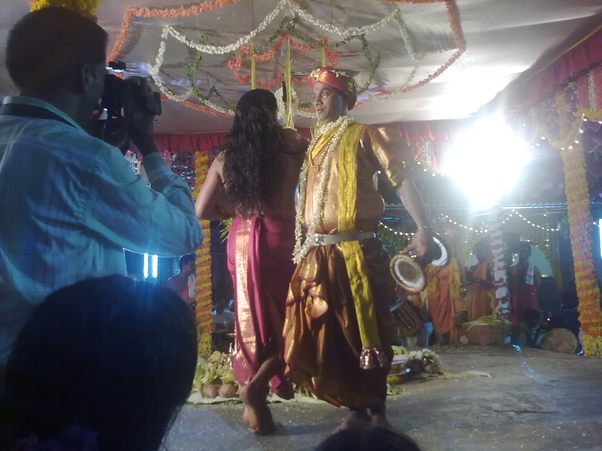 this is an image taken during nagamandala celecrations at moodubelle near udupi